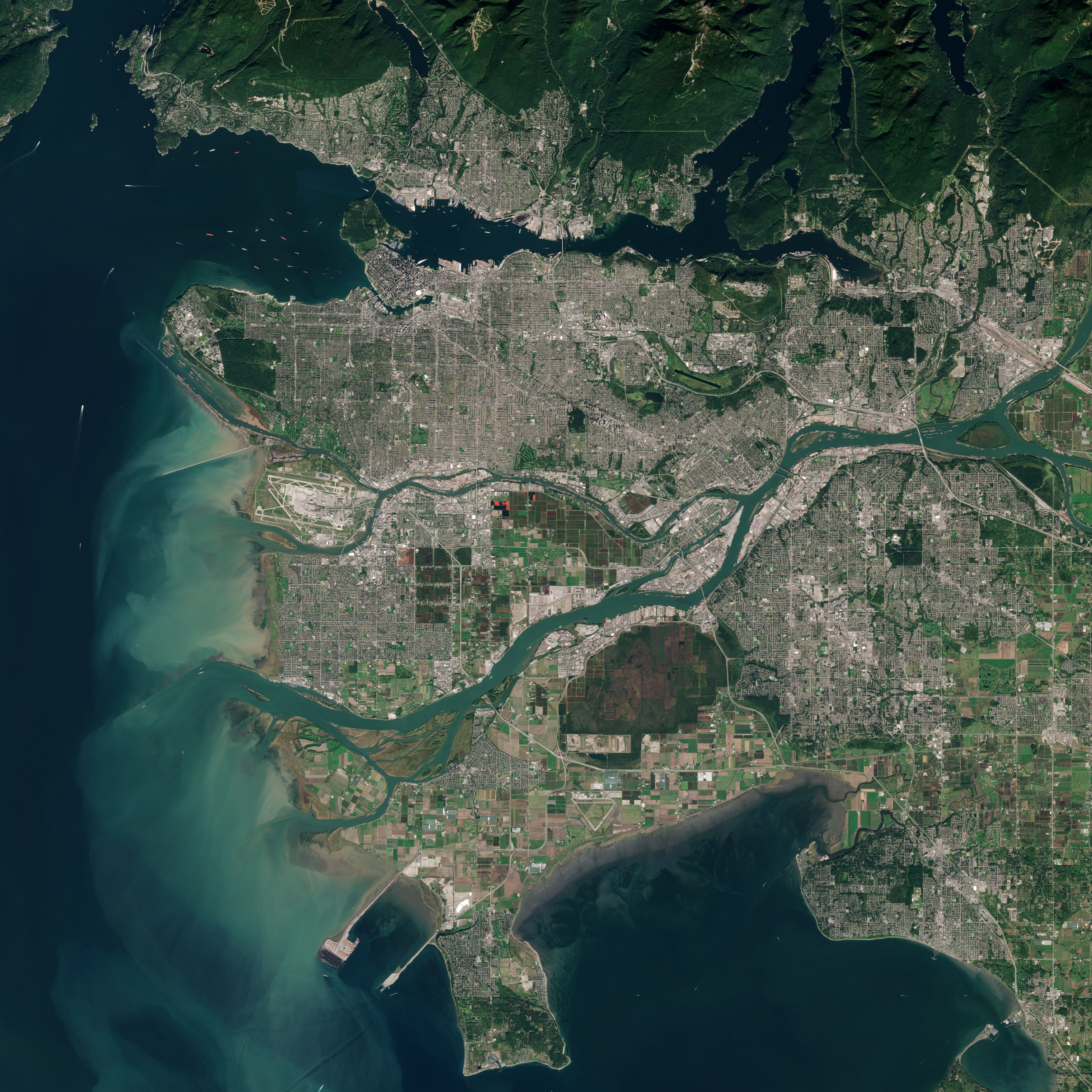 Date: 2018-09-28 Sensor: MSI on Sentinel-2A Resolution: 10m RGB Composites: True color, Band 4-3-2